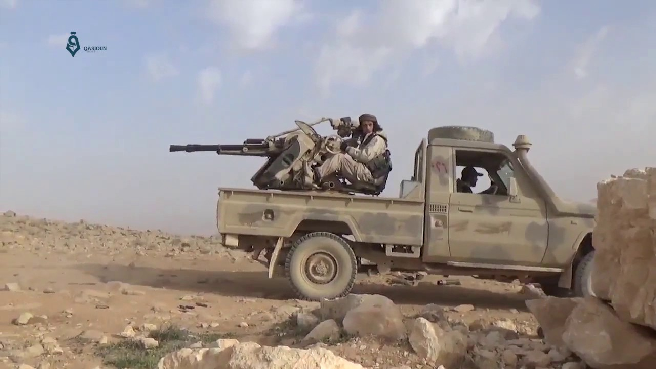 An improvised fighting vehicle armed with a ZU-23 autocannon operated by the Free Syrian Army during clashes with the Islamic State in the eastern Qalamoun Mountains, southern Syria.